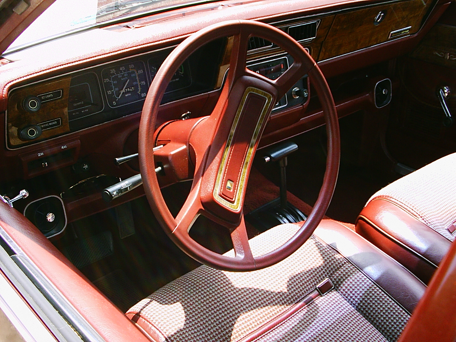 Interior of an AMC Eagle four-door station wagon (automatic all-wheel-drive) by American Motors Corporation (AMC). This is a late 1980s car. Photograph taken at an AMC Rambler Club show that was held in Gaithersburg, Maryland.